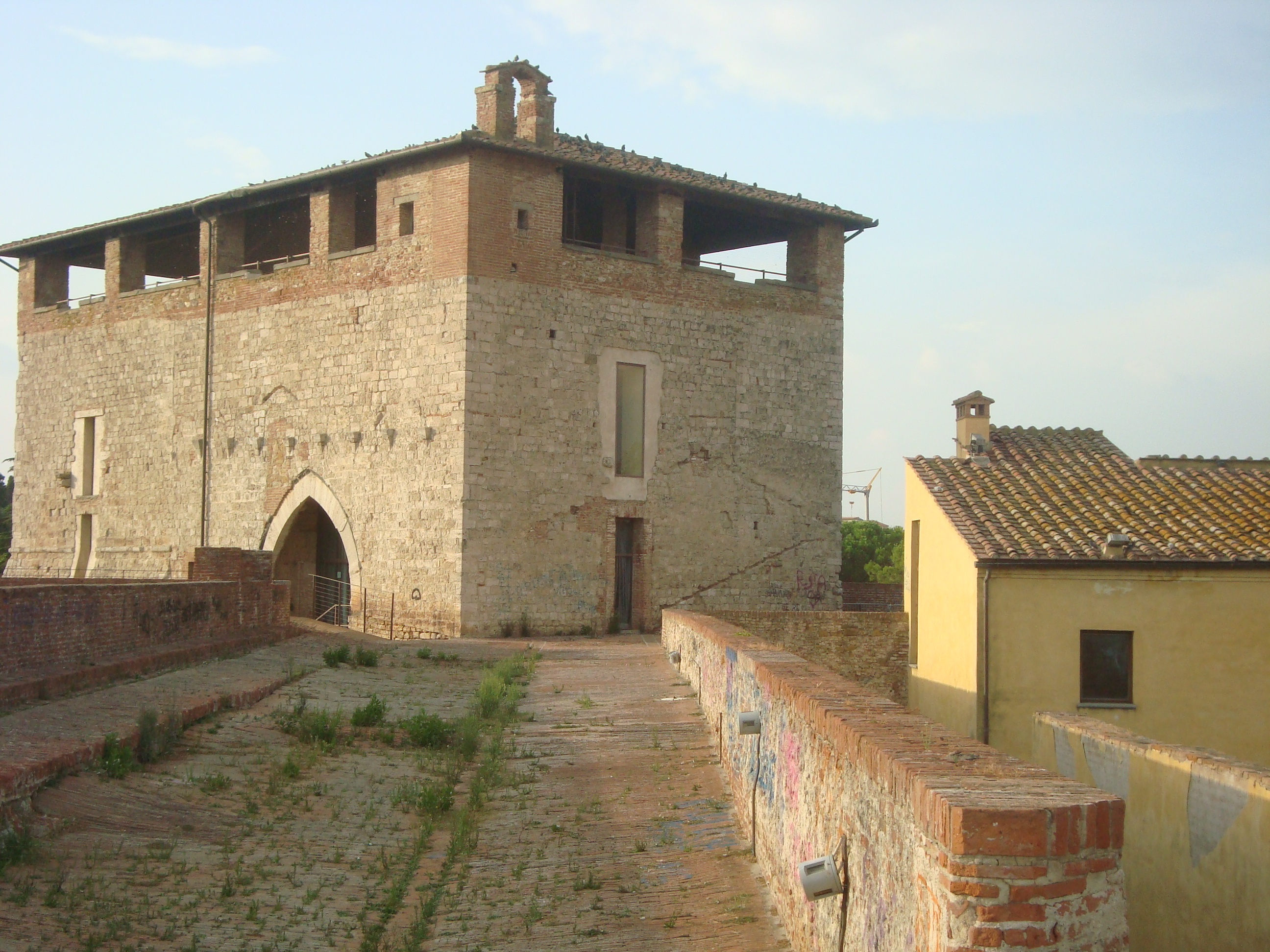 Bastione Fortezza in Grosseto